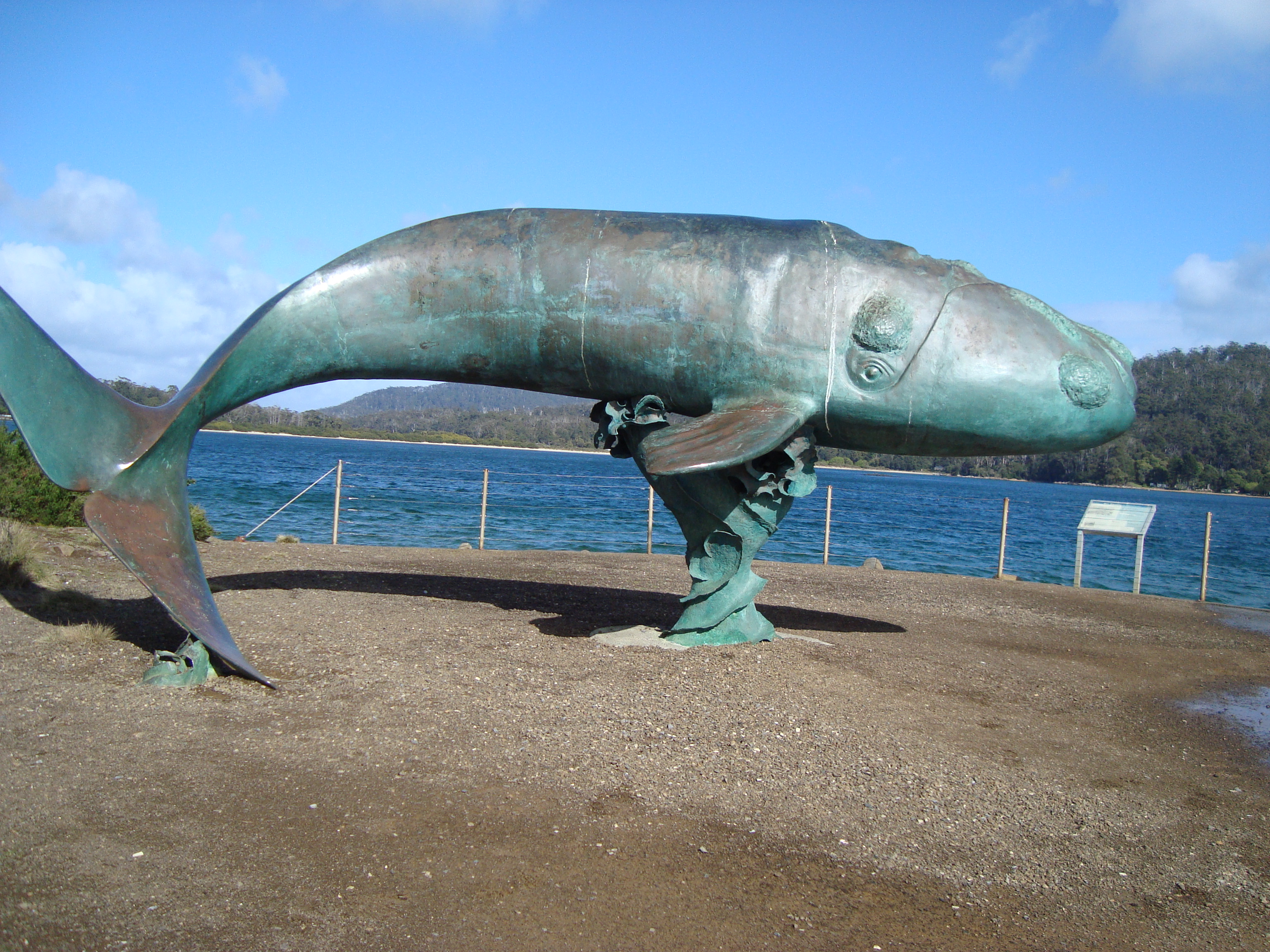 A bronze sculpture of a southern right whale on a small promontory looks out on Recherche Bay, a 5 minute walk from the car park at Cockle Creek, Tasmania.